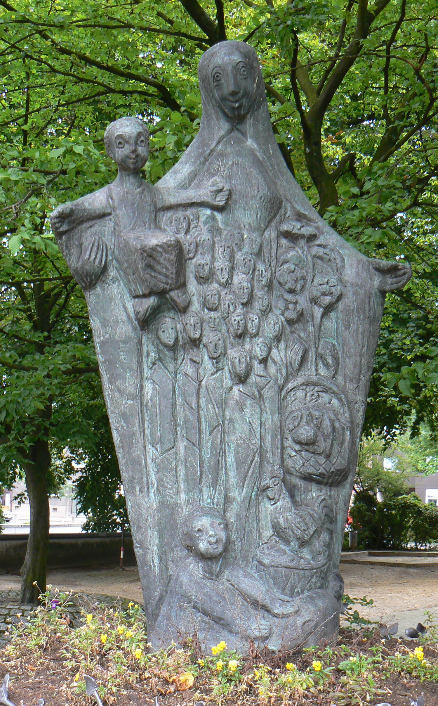 sculpture:Schutzmantelmadonna (1978) by Hilde Schürk-Frisch in Herten/Germany